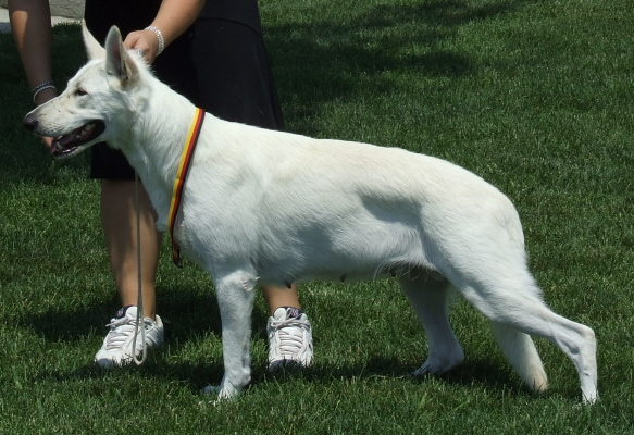 UKC/IABCA Int'l Ch, ARBA pointed Regalwise Oreo, HIC, OFA Hips/Elbows/Cardiac/Thyroid, MDR1, GSDCA Health Merit Excellent Owner: Alicia Lips (Kerstone Shepherds) Breeder: Ronda Beaupre (Regalwise Shepherds)